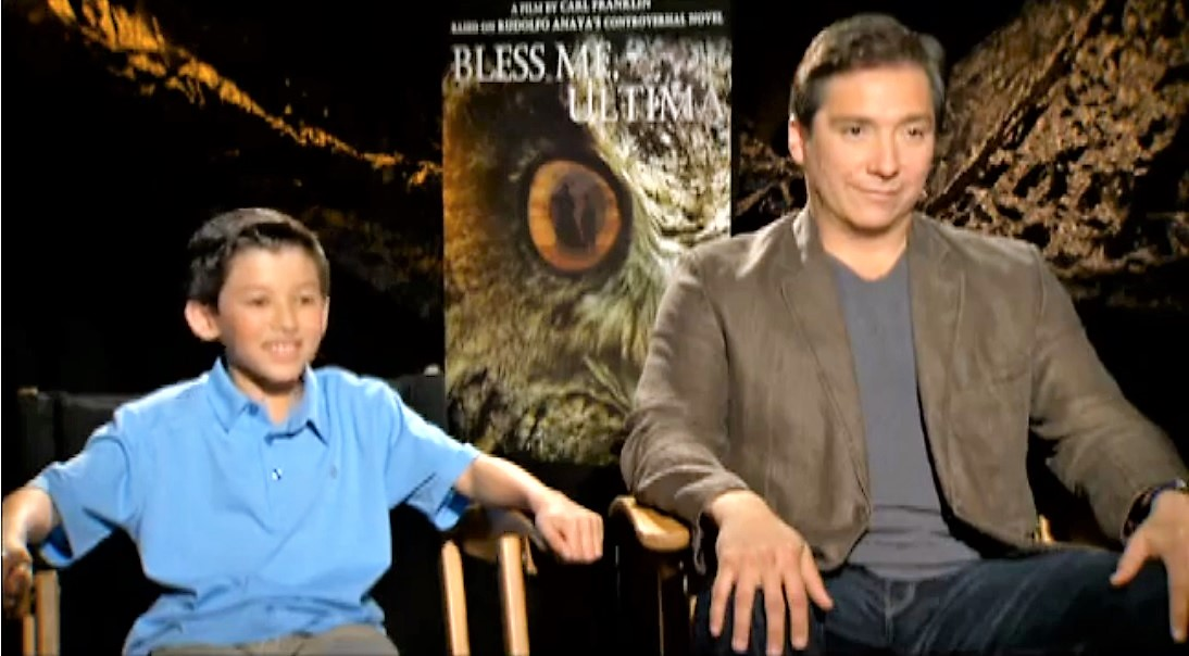 American actors Luke Ganalon and Benito Martinez interviewed by Dulce Osuna about their film "Bless Me, Ultima".